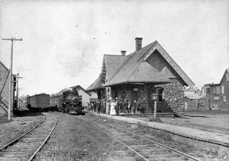 The Kensington Railway Station in Kensington, Prince Edward Island, Canada.